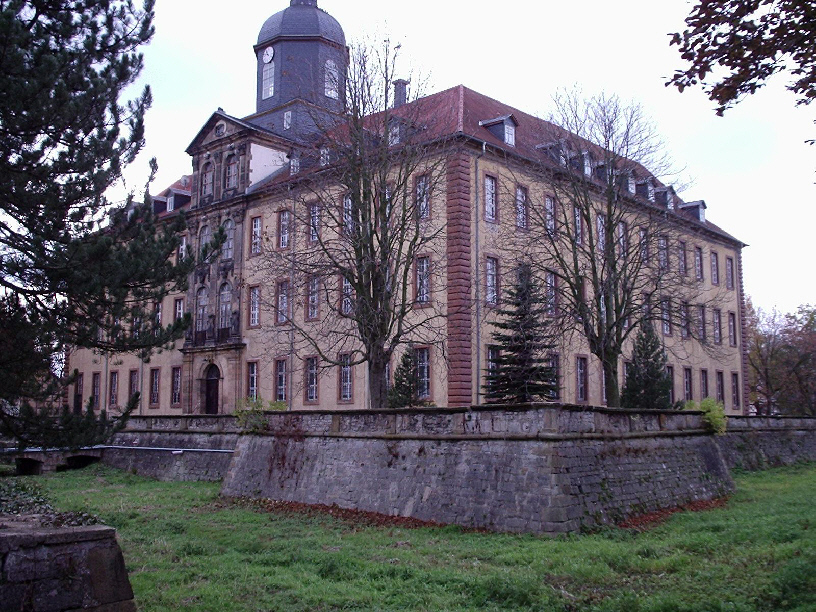 Friedrichswerth castle.